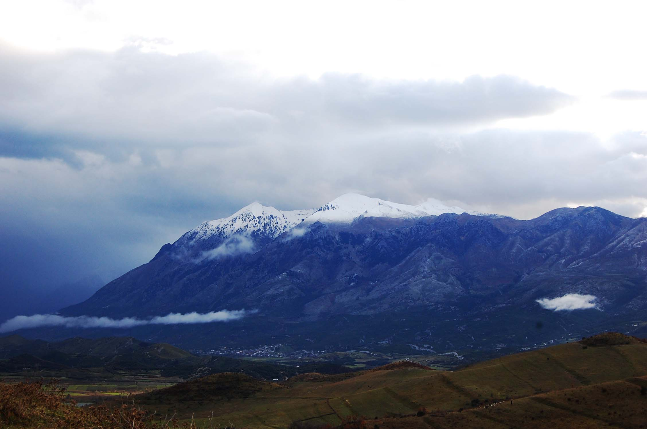 The valley of the Shushica (Lumi i Vlorës) with the Gribë mountains in the background